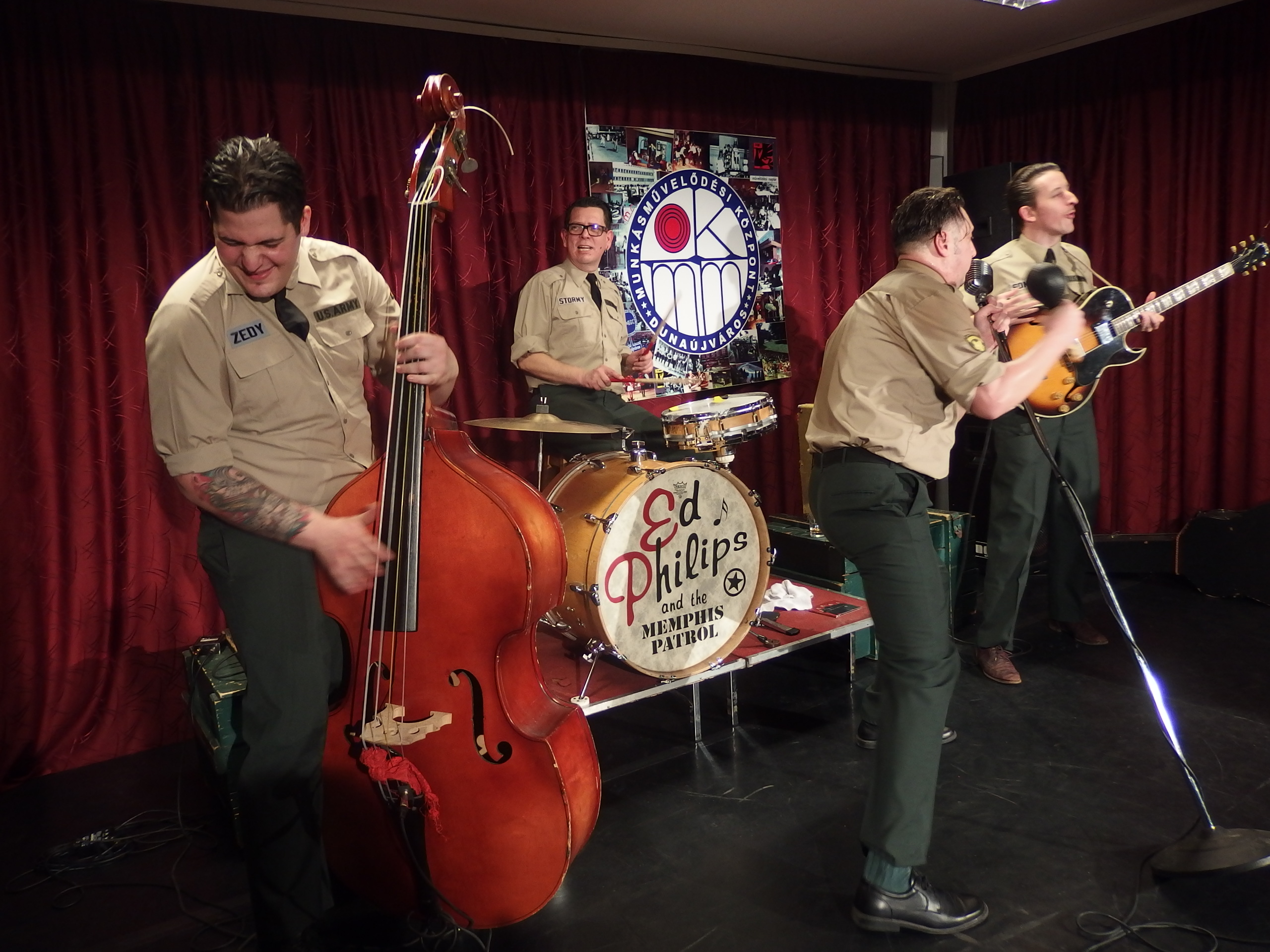 Ed Philips and the Memphis Patrol rockabilly and Elvis Presley tribute band